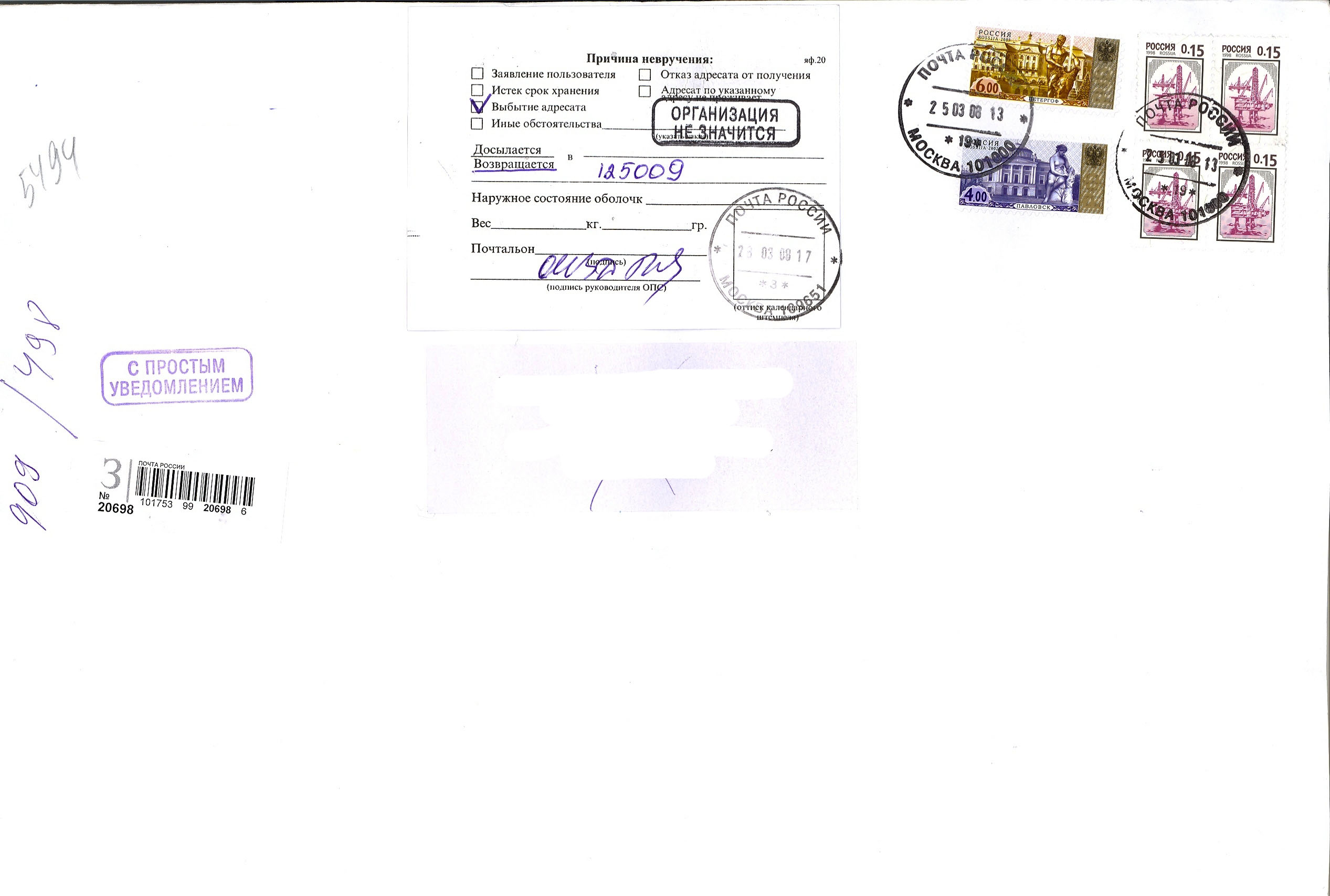 Cover with non-delivered return label, Russia, 2008.